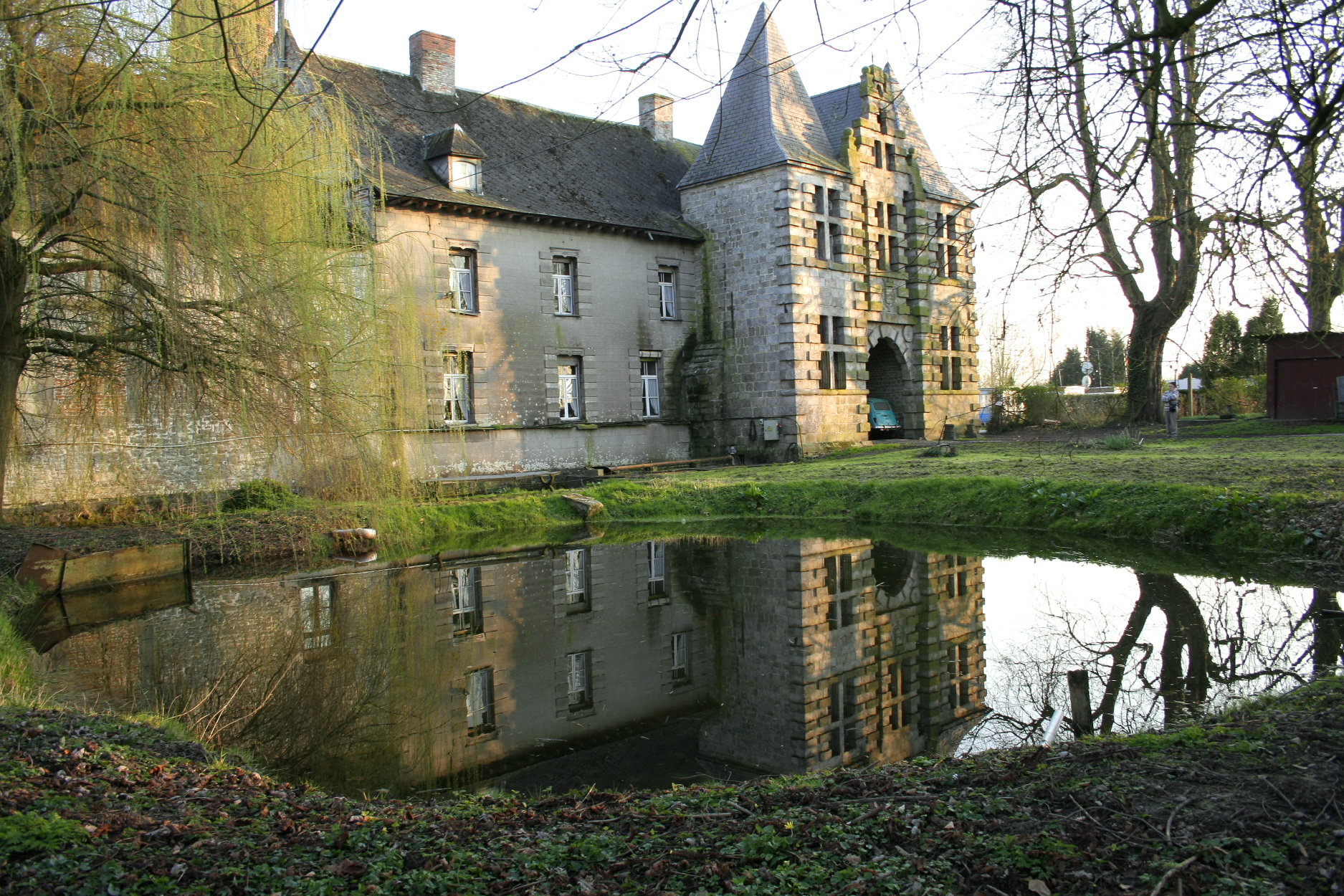 Wiers (Belgium), the castle of « du Biez » (XII/XVIIIth centuries).